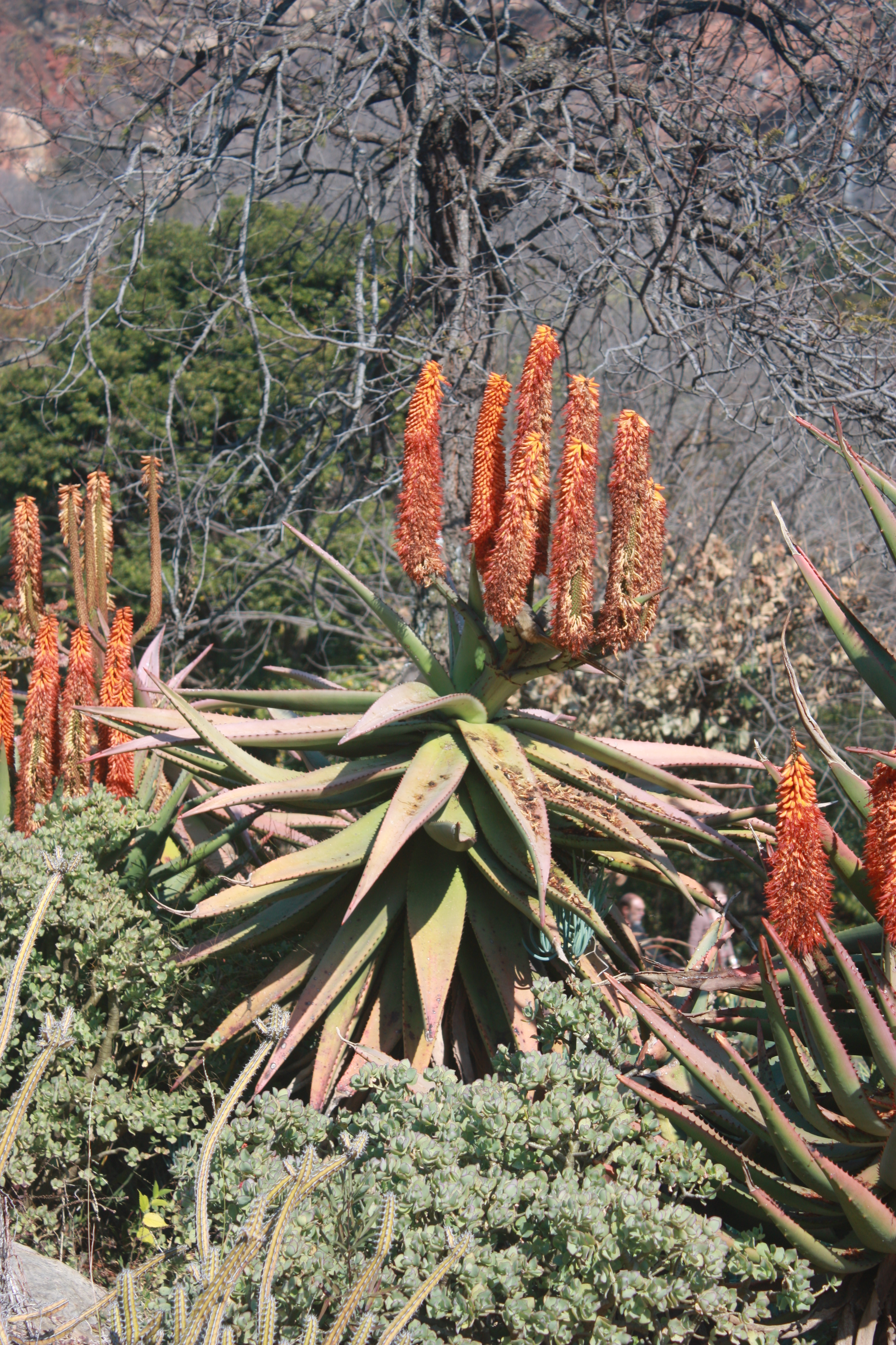 Aloe ferox, Walter Sisulu Botanical Garden, Roodepoort, South Africa